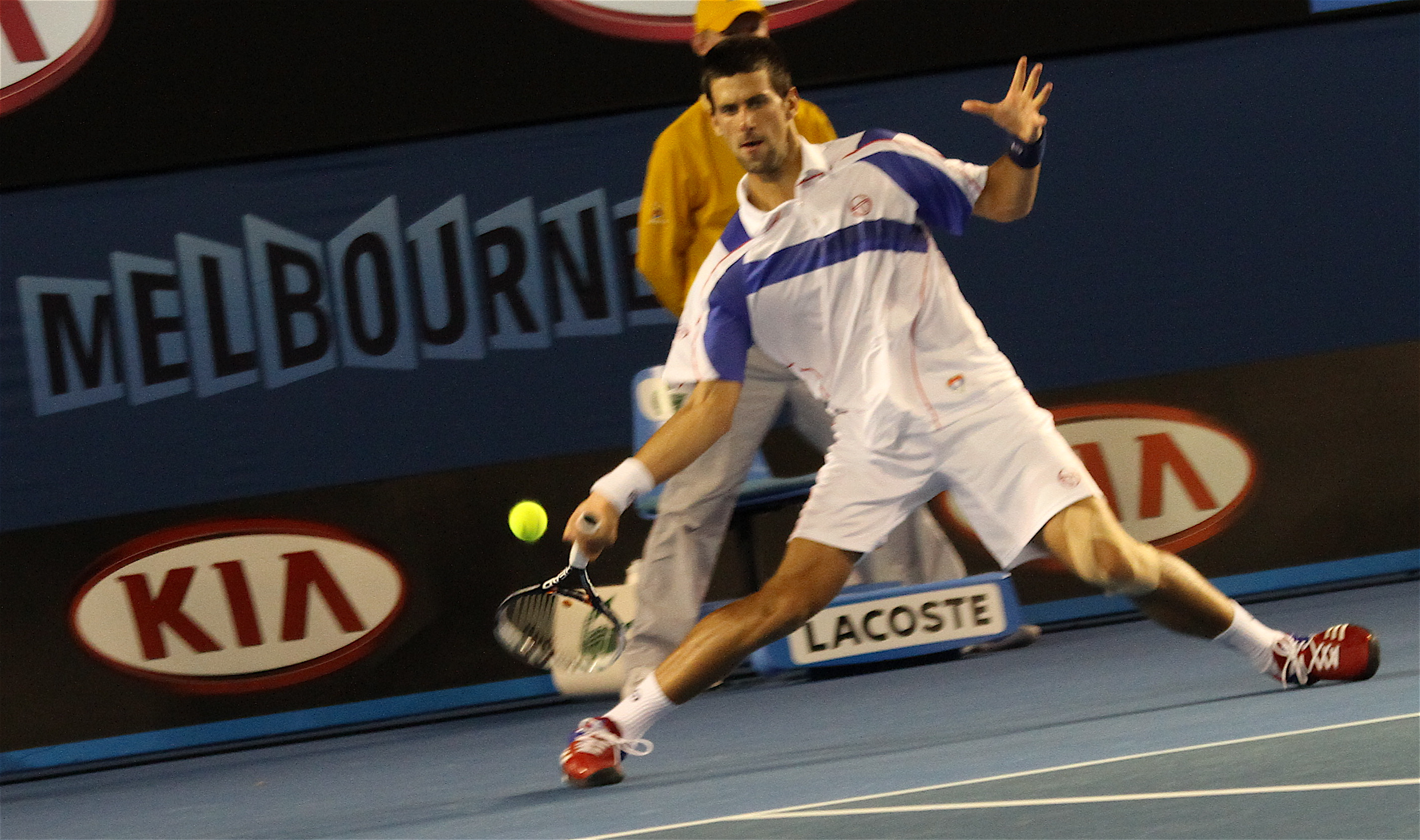 Novak Djokovic at the 2011 Australian Open